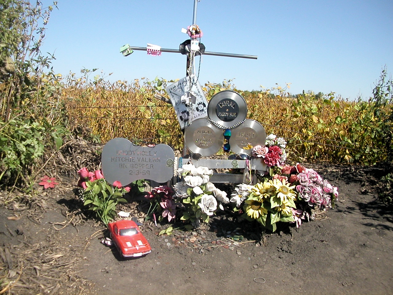 Monument to Buddy Holly, Richie Valens, and J.P. Richardson (“The Big Bopper”). Location: Approximately 8 miles north of Clear Lake, Iowa Directions: US 18 to North 8th Street north in Clear Lake for 4.7 miles. When the paved road (which has turned into Grouse Avenue) turns left (west), go right (east) on gravel road (310th Street), then immediately left (north) on Gull Avenue. Follow Gull Avenue for 1/2 mile, just past the grain bins to t-intersection of a gravel road from the right and first fence row on left (west). The fence begins at the street sign for "Gull Ave." and "315th St." Walk along the fence row west for just under 1/2 mile. Directions to Crash Site: From U.S. Highway 18, go north on North 8th Street in Clear Lake for 4.7 miles. When the paved road (which has turned into Grouse Avenue) turns to your left (west), take the gravel road (310th Street) to your right (east), then immediately left (north) on Gull Avenue. Follow Gull Avenue to the north for one-half mile, just past the grain bins to the first fence row on your left (west). Walk along the fence row towards the west for just under one-half mile. A small memorial is located at the place the plane came to rest. Four trees were also planted along the fence row in 1999, one for each performer and the pilot.